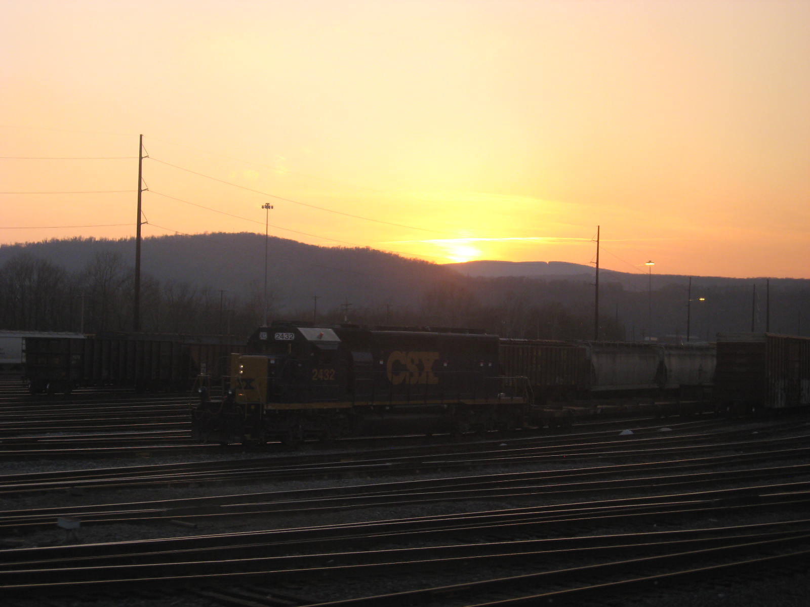 CSX Trains at the Cumberland Depot